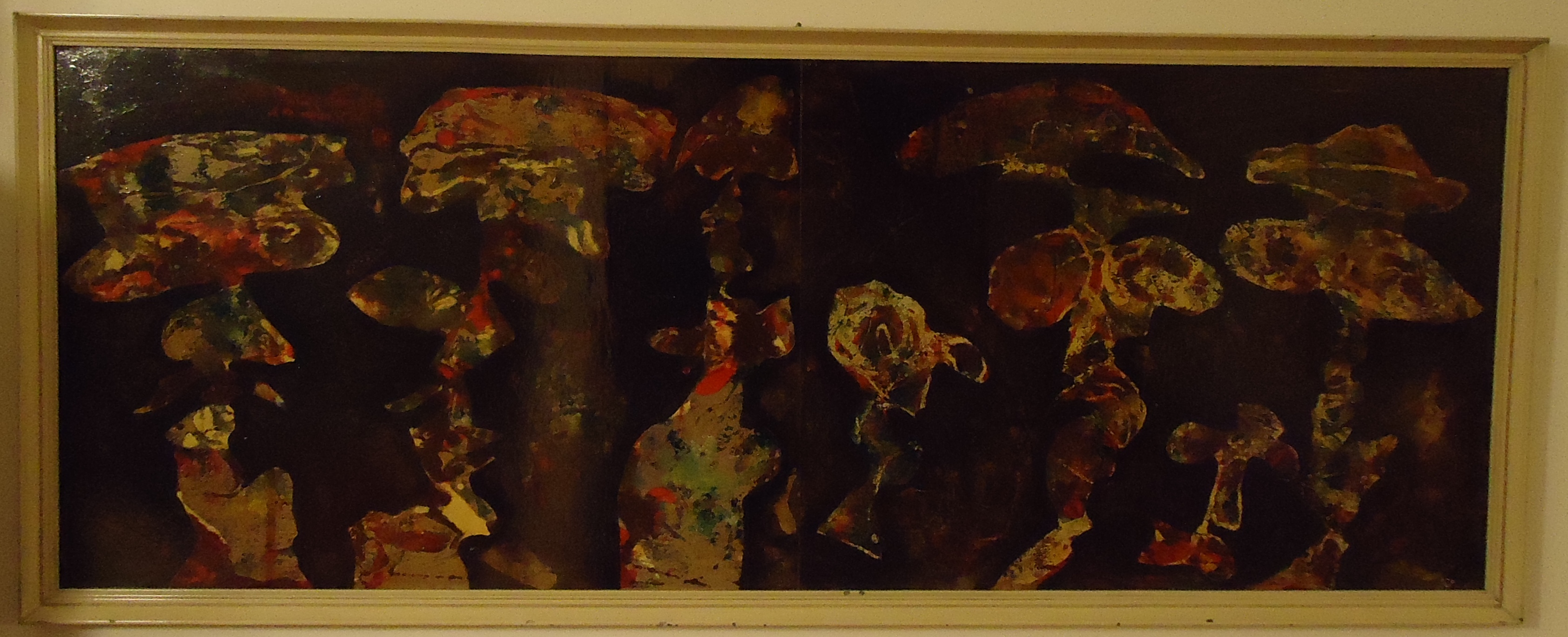 Photo of the painting by Tuncer Baytok named "Mexican women on the way to market", courtesy of Tülay-Neriman Eratalay collection